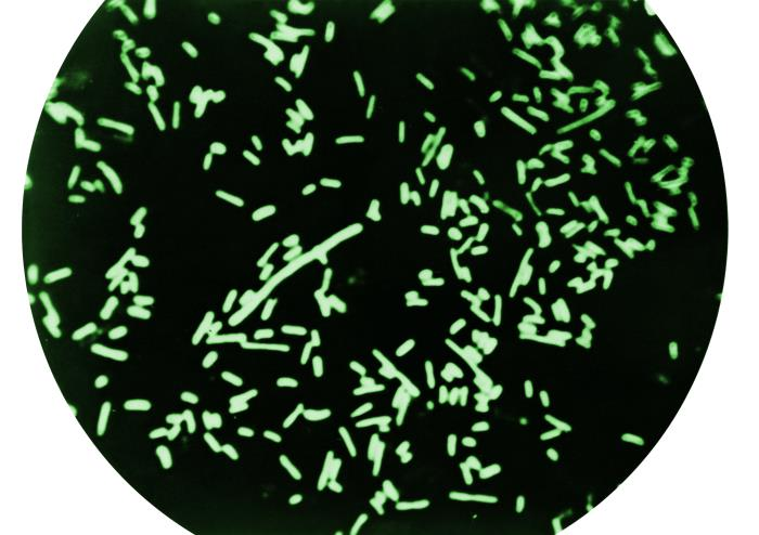 Dark field microscopy revealing Shigella dysenteriae bacteria.